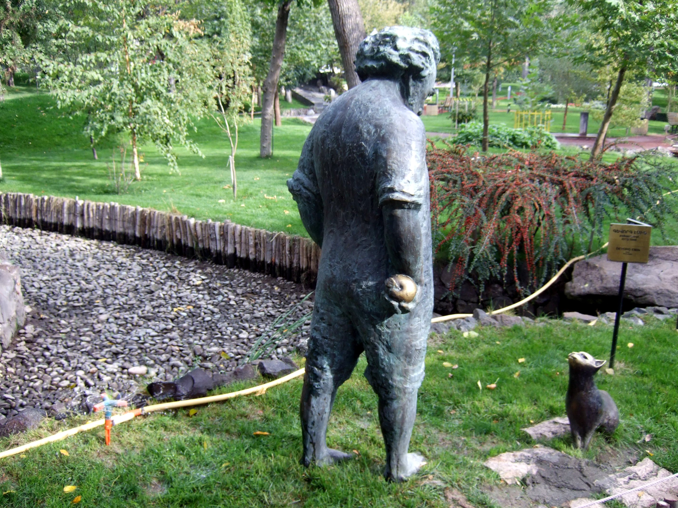 Statue of Gevorg Emin in Siraharneri aygi, Yerevan